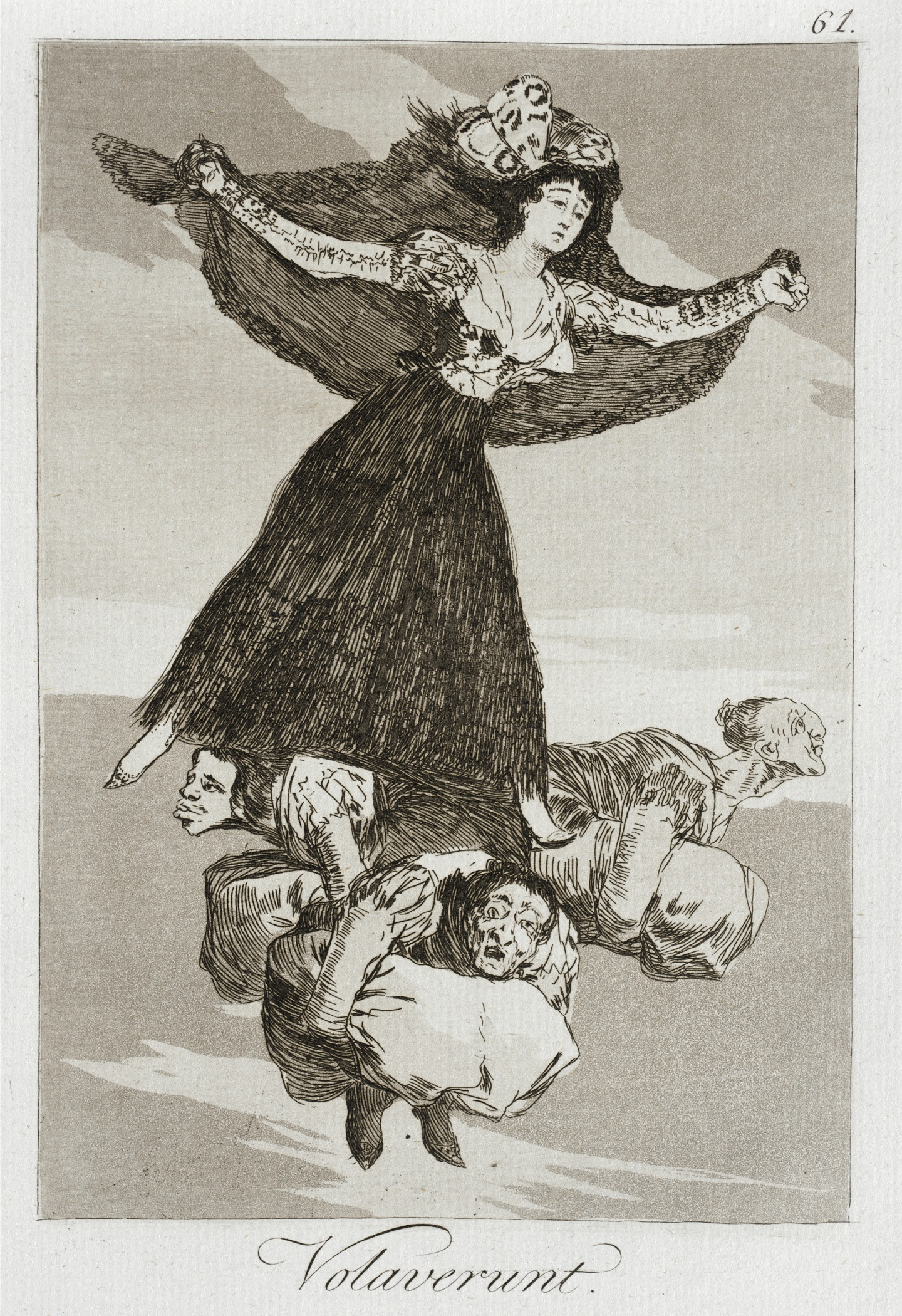 Spain, 1799 Portfolio: Los Caprichos, plate 61 Prints; etchings Etching, aquatint and drypoint Paul Rodman Mabury Trust Fund (63.11.61) Prints and Drawings